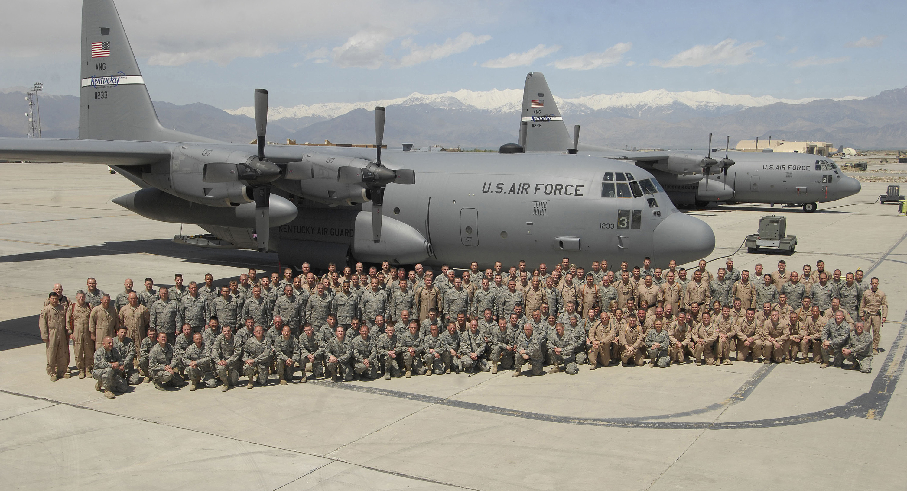 Deployed U.S. Air Force members of the 123rd Airlift Wing, Kentucky Air National Guard, pose with their Lockheed C-130H Hercules aircraft (s/n 91-1232, 91-1233) on a flightline in Afghanistan, 22 April 2009.